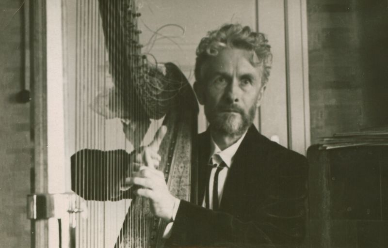 Vydūnas plays a harp in his home